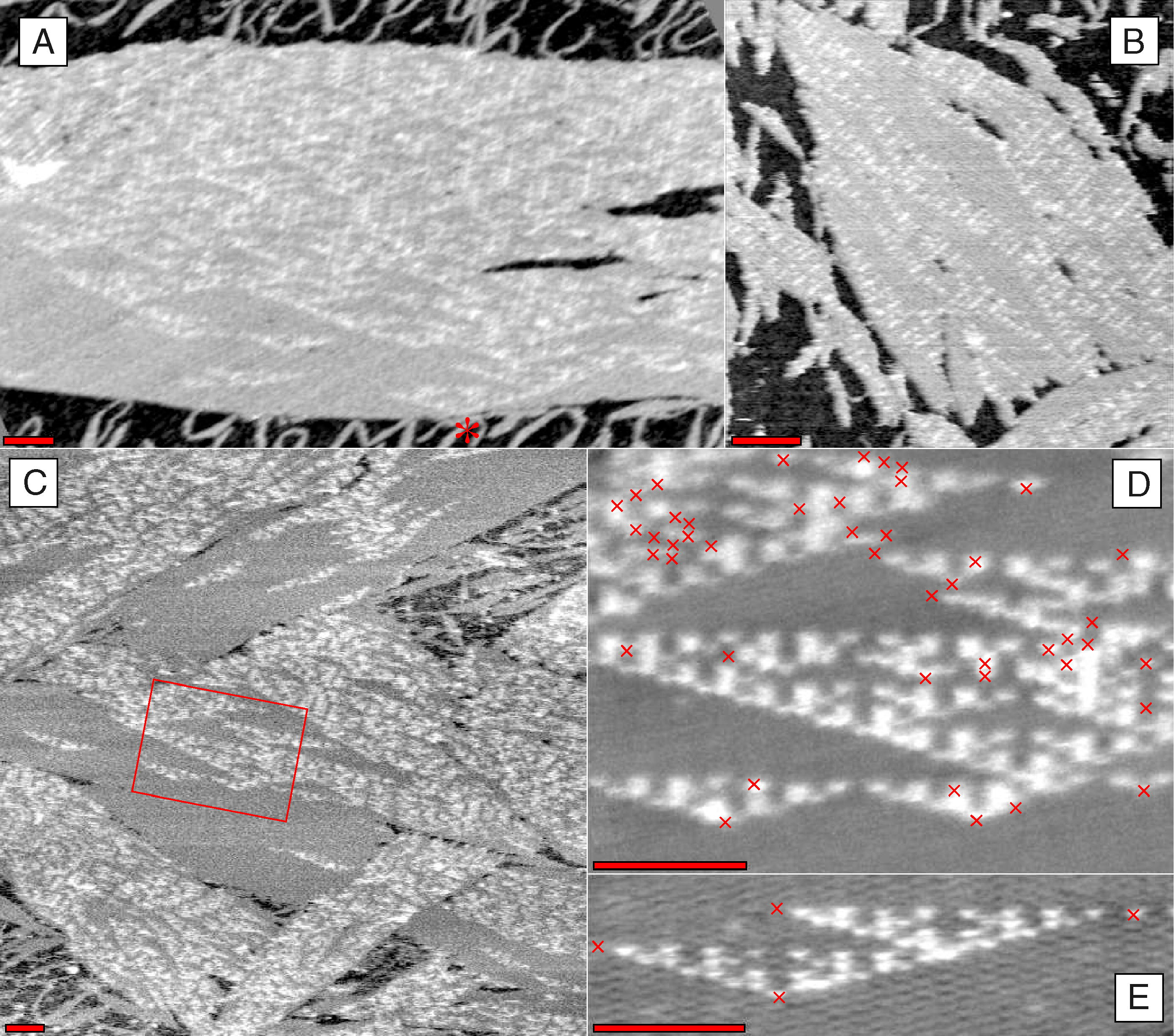 Figure 6. AFM Images of DAO-E Crystals (A) A large templated crystal in a 5-tile reaction (no R-11). A single ‘1' in the input row (asterisk) initiates a Sierpinski triangle, which subsequently devolves due to errors. Mismatch errors within ‘0' domains initiate isolated Sierpinski patterns terminated by additional errors at their corners. (B) A large untemplated fragment in a 5-tile reaction (no S-11). Large triangles of ‘0's can be seen. Crystals similar to this are also seen in samples lacking the nucleating structure. (C) Several large crystals in a 6-tile reaction, some with more zeros than ones, some with more ones than zeros. It is difficult to determine whether these crystals are templated or not. (D) An average of several scans of the boxed region from (C), containing roughly 1,000 tiles and 45 errors. (E) An average of several scans of a Sierpinski triangle that initiated by a single error in a sea of zeros and terminated by three further errors (a 1% error rate for the 400 tiles here). Red crosses in (D) and (E) indicate tiles that have been identified (by eye) to be incorrect with respect to the two tiles from which they receive their input. Scale bars are 100 nm. This image is from the following journal article: Rothemund, Paul W. K.; Papadakis, Nick & Winfree, Erik (December 2004). "Algorithmic Self-Assembly of DNA Sierpinski Triangles". PLoS Biology 2 (12): 2041-2053. ISSN 1544-9173.